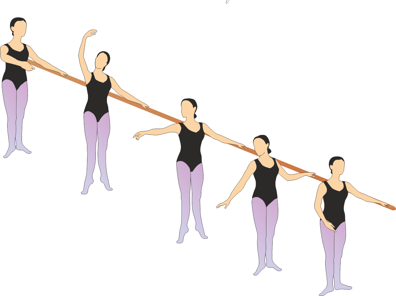 Ballet barre exercises: elevé